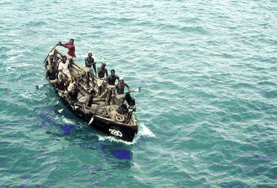 Some of the workers come by boat to the ship